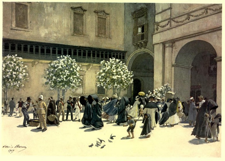 Illustration “Piazza Reale, Valletta” - from the book Malta by F. Ryan